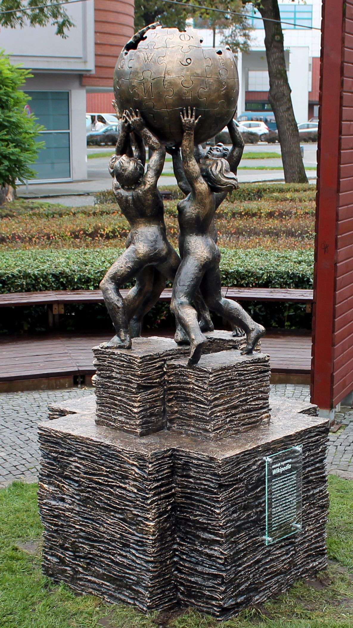 Wikipedia Monument.